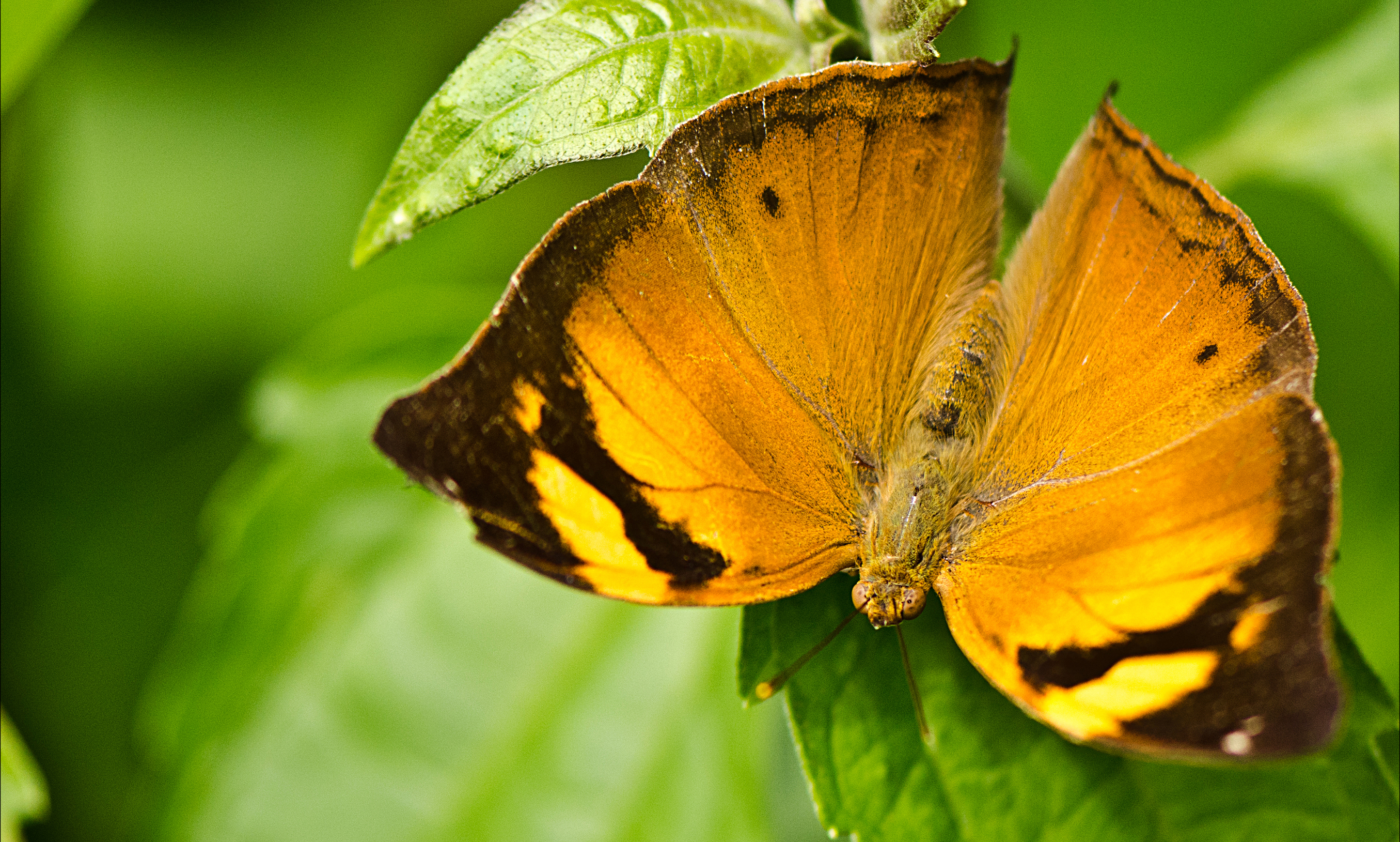 Doleschallia bisaltide, commonly known as the Autumn Leaf, is a nymphalid butterfly found in India.Recorded from Madayippara a lateritic hillock in the midland of Kannur District of Kerala.